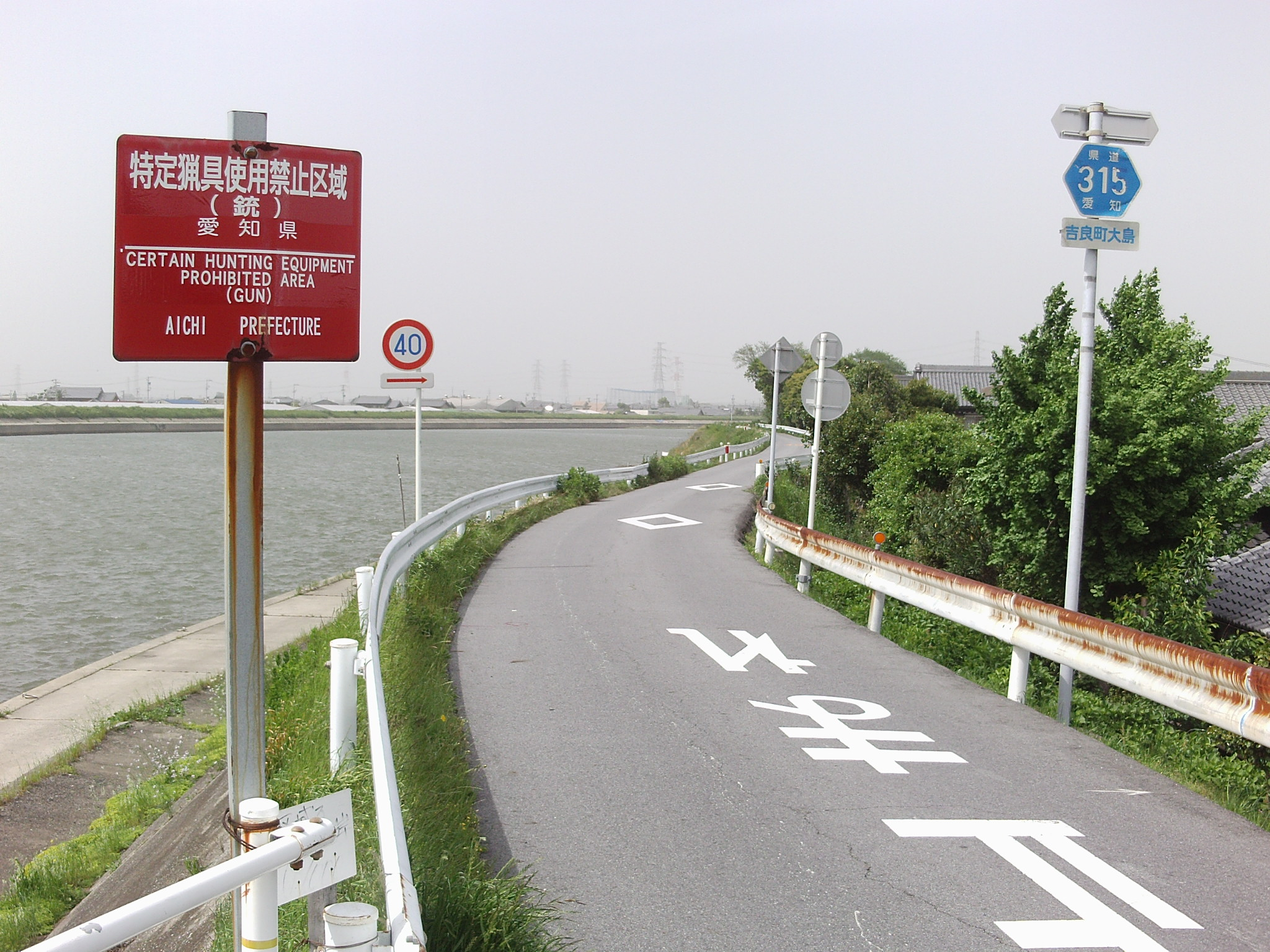 Aichi prefectural road No.315 in Kiracho-Oshima, Nishio, Aichi.